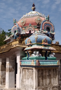 Tirunaraiyursitthanathesvarartemple திருநறையூர்சித்தாநாதேஸ்வரர்கோயில்